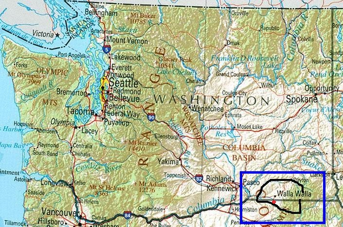 Rough location of The Rocks AVA within Walla Walla AVA, Washington State, USA. Derived from Commons File:Walla Walla AVA map.JPG uploaded by User:Kelly.